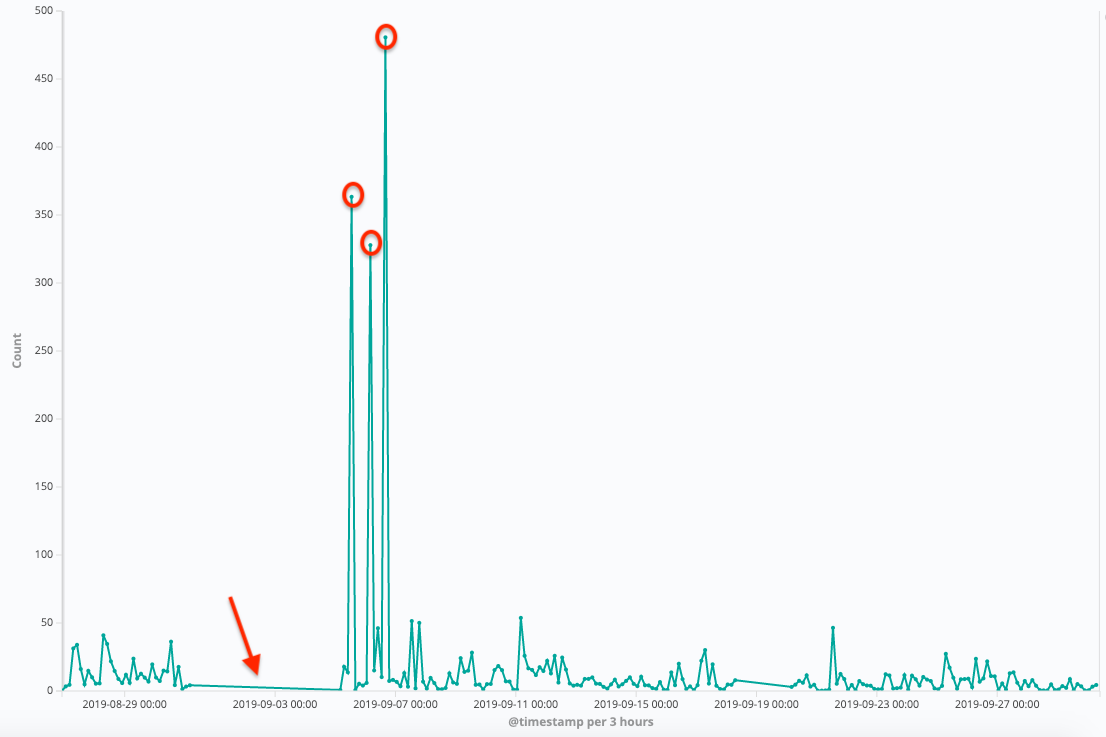 Number of requests to a web server by a 3-hours time-bucket, in a one-month period.